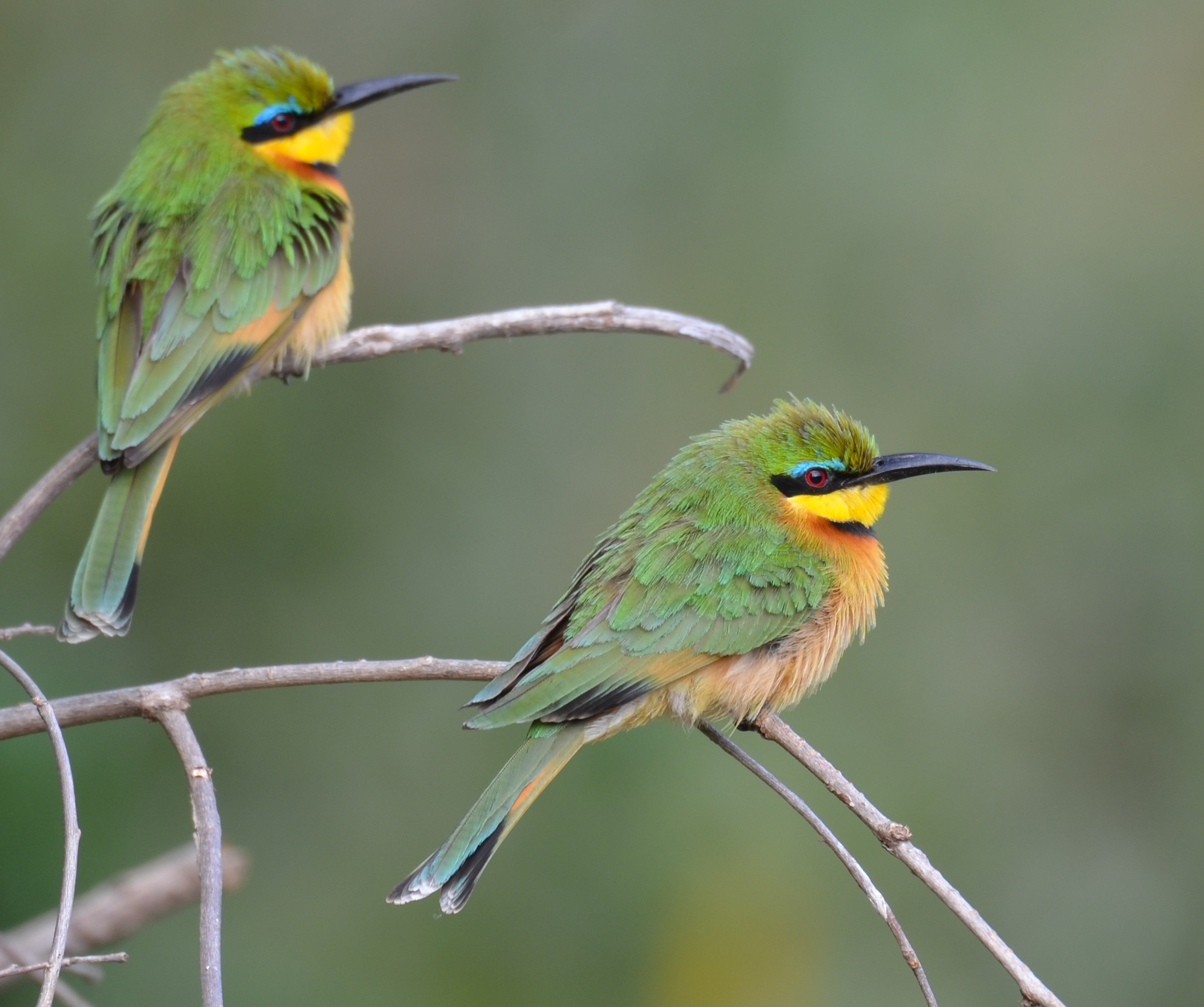 Little Bee-eaters (Merops pusillus), Kenya, 2013